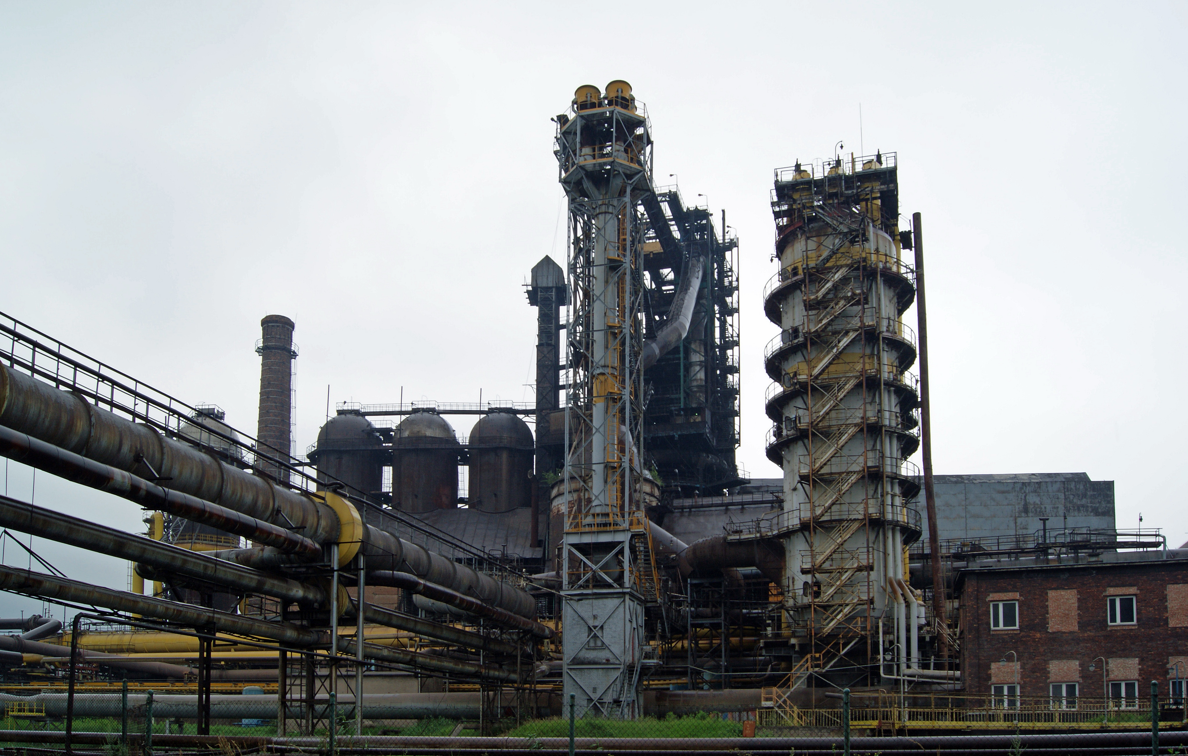 Sendzimir's (Nowa Huta) steel mill, blast furnace, 1 Ujastek street, Nowa Huta, Krakow, Poland